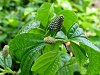 Leaves and inflorescence of Piper sarmentosum